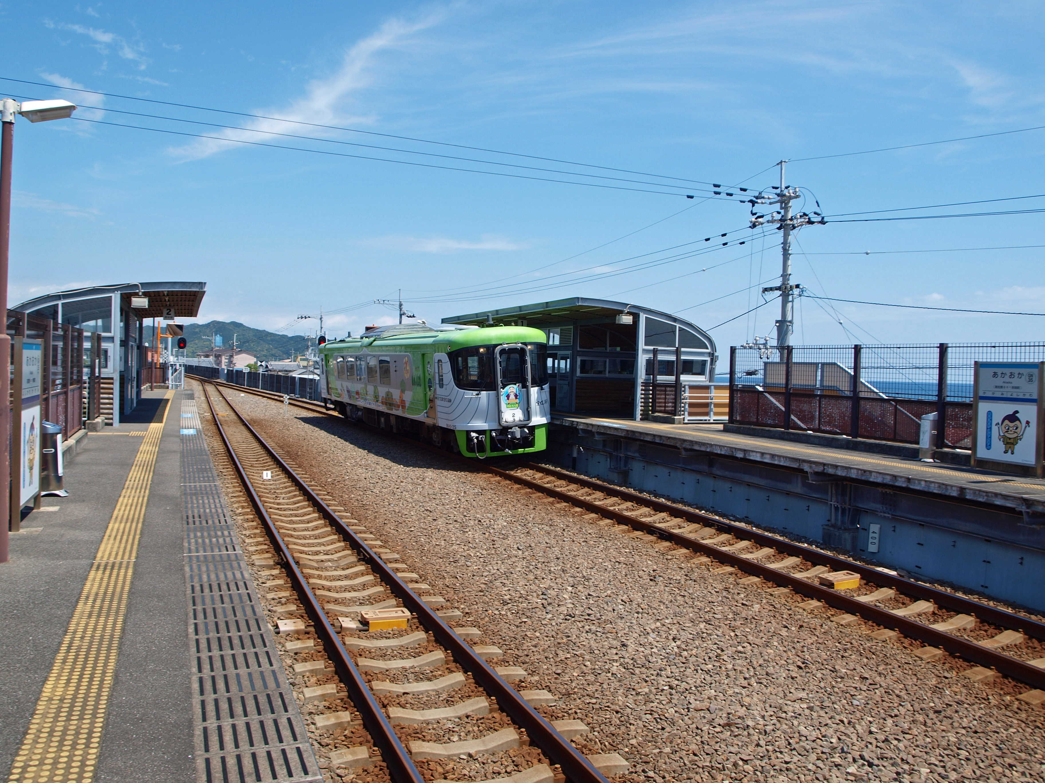 Akaoka Station, Gomen-Nahari Line（Asa Line), Tosa Kuroshio Railway, Japan